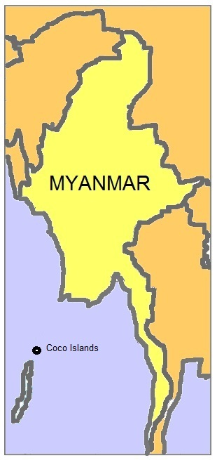 Situation of Cocos Island in Myanmar